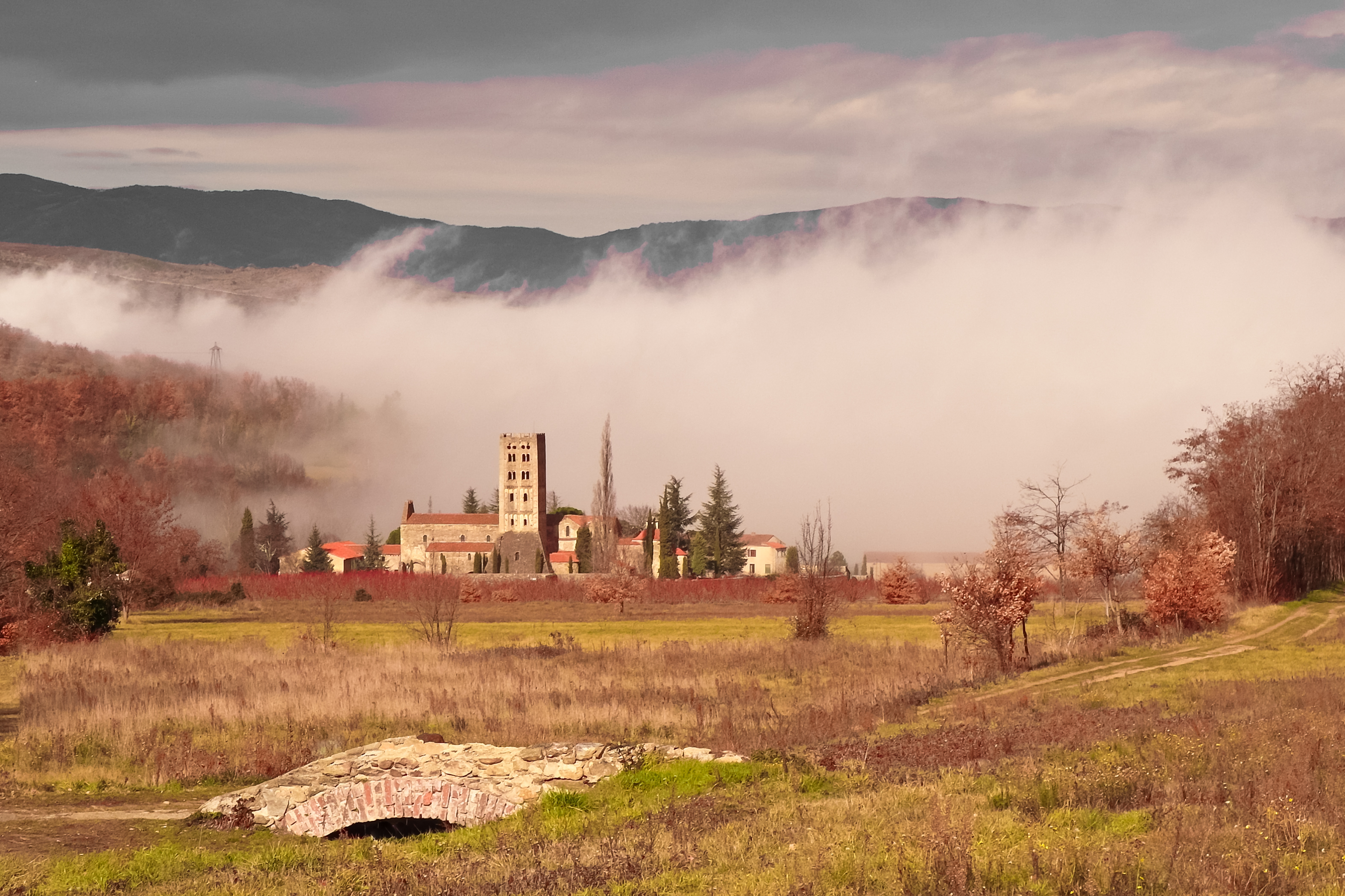 St-Michel of Cuxa's abbey, january, Codalet, France